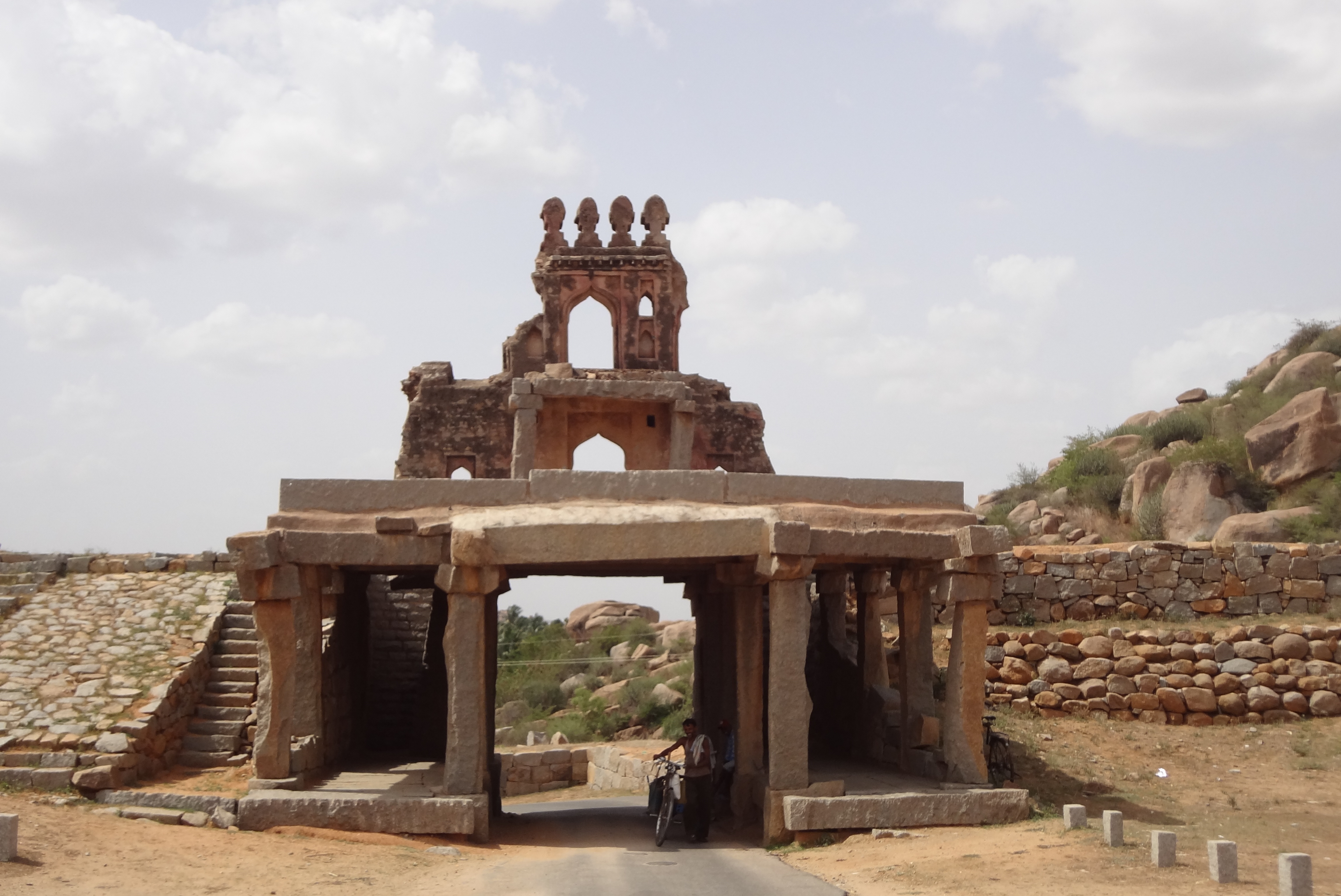 Hampi group of monuments (except those under ASI)